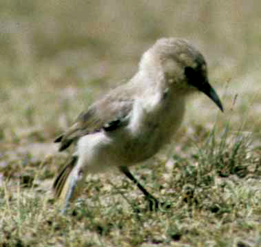 A foraging Hume Ground Tit (Parus humilis), part of a small group. Picture taken on the Tibetan Plateau — September 1987.